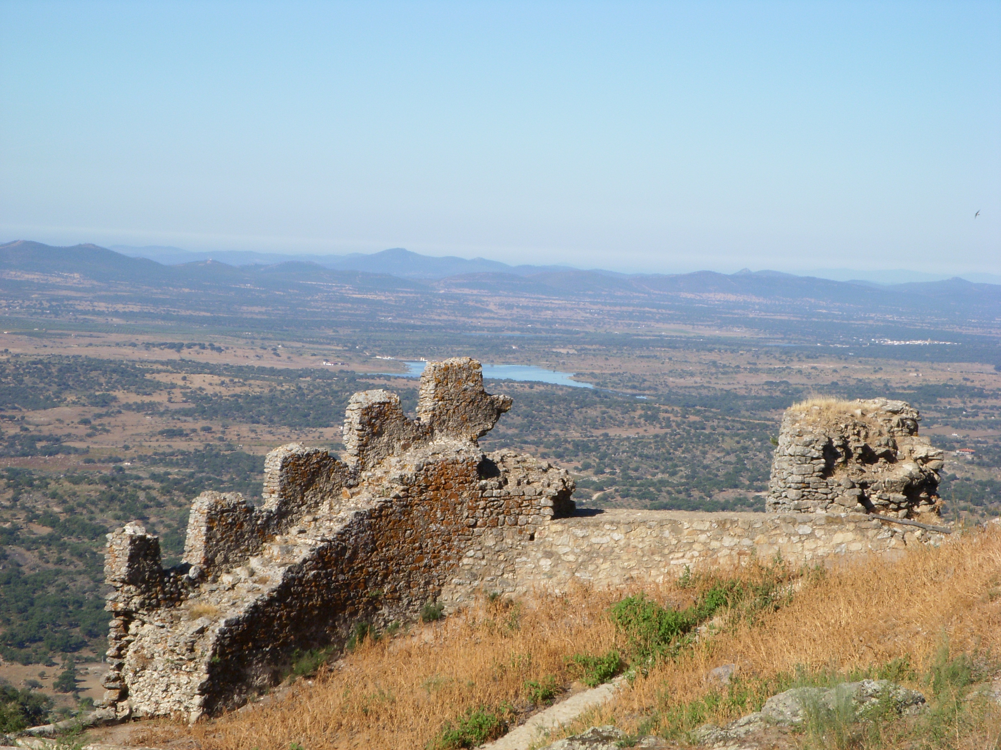 El Castillo está coronado por el Monte Viejo (Montancil o Monte Tances). Considerables pendientes y frecuentes quiebros de sus calles. Sierra Altitud : 734 m. Situación: 39.225658 -6.154807 Distancia: 48 Km de Cáceres. Rumbo: 97º E Comarca: Comarca de Montanchez. Mancomunidad: Sierra de Montanchez. Pueblos cercanos: Abalá del Caudillo, Torre de Santa María, Zarza de Montanchez, Valdemorales, Almoharín, Arroyomolinos, Alcuescar, Casas de Don Antonio Alrededores cercanos: EL QUEMADO, RECUERA, NACIMIENTO DEL RIO SALOR, el pocito, prado barbudo, el hornillo. GOOGLE MAPS ESPAÑA BUSCAR POR Mapas creados por los usuarios 109111079184700244089